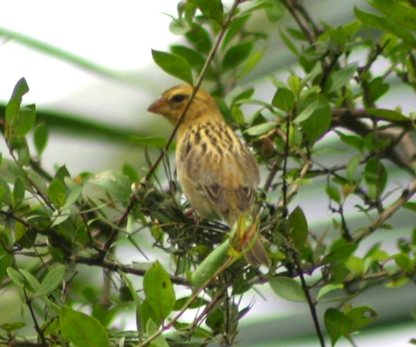 Female Asian Golden Weaver (Ploceus hypoxanthus), Moeyungyi Wetland Wildlife Sanctuary, Bago Division, South Myanmar.